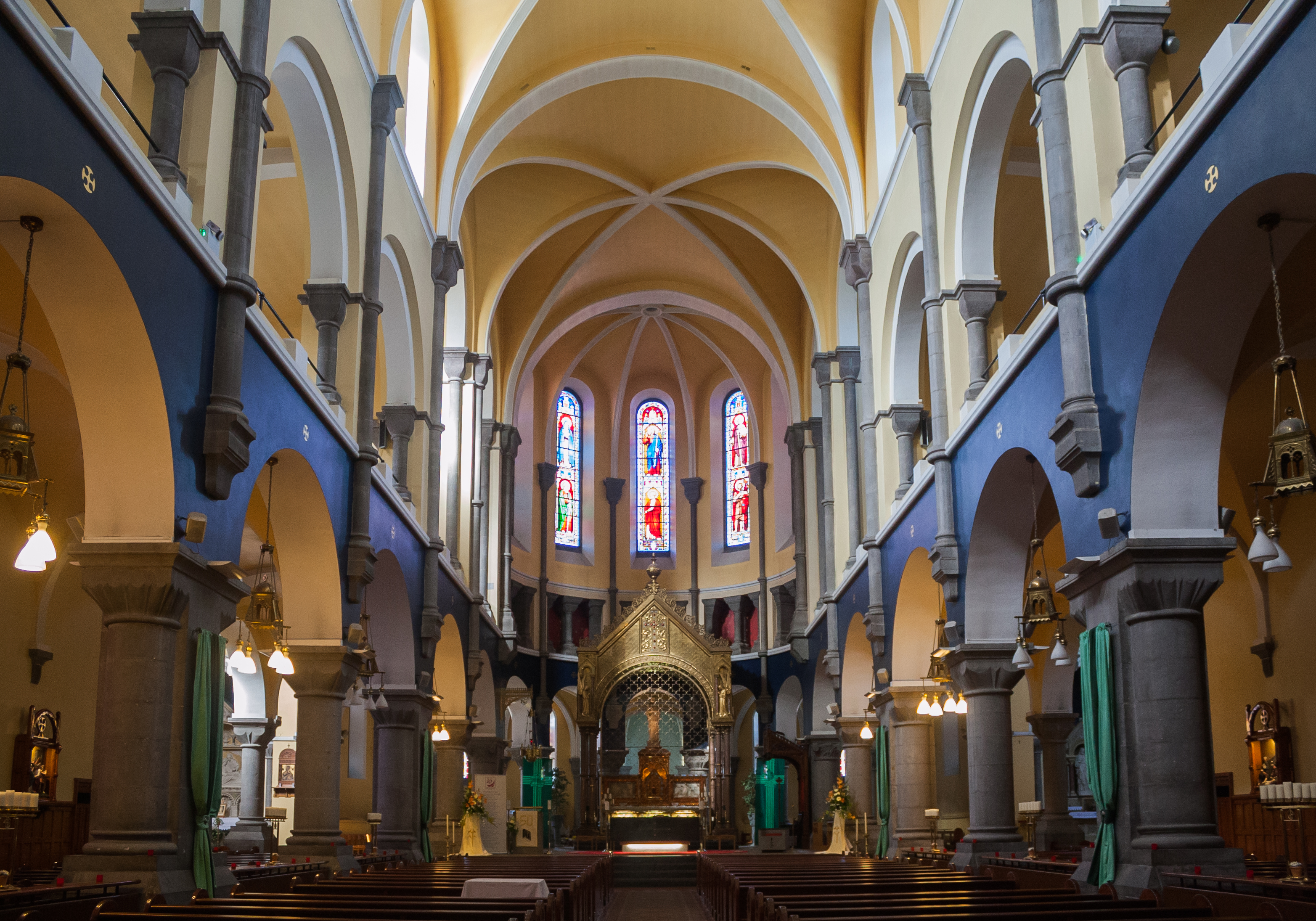 View from the nave towards the high altar, looking north.